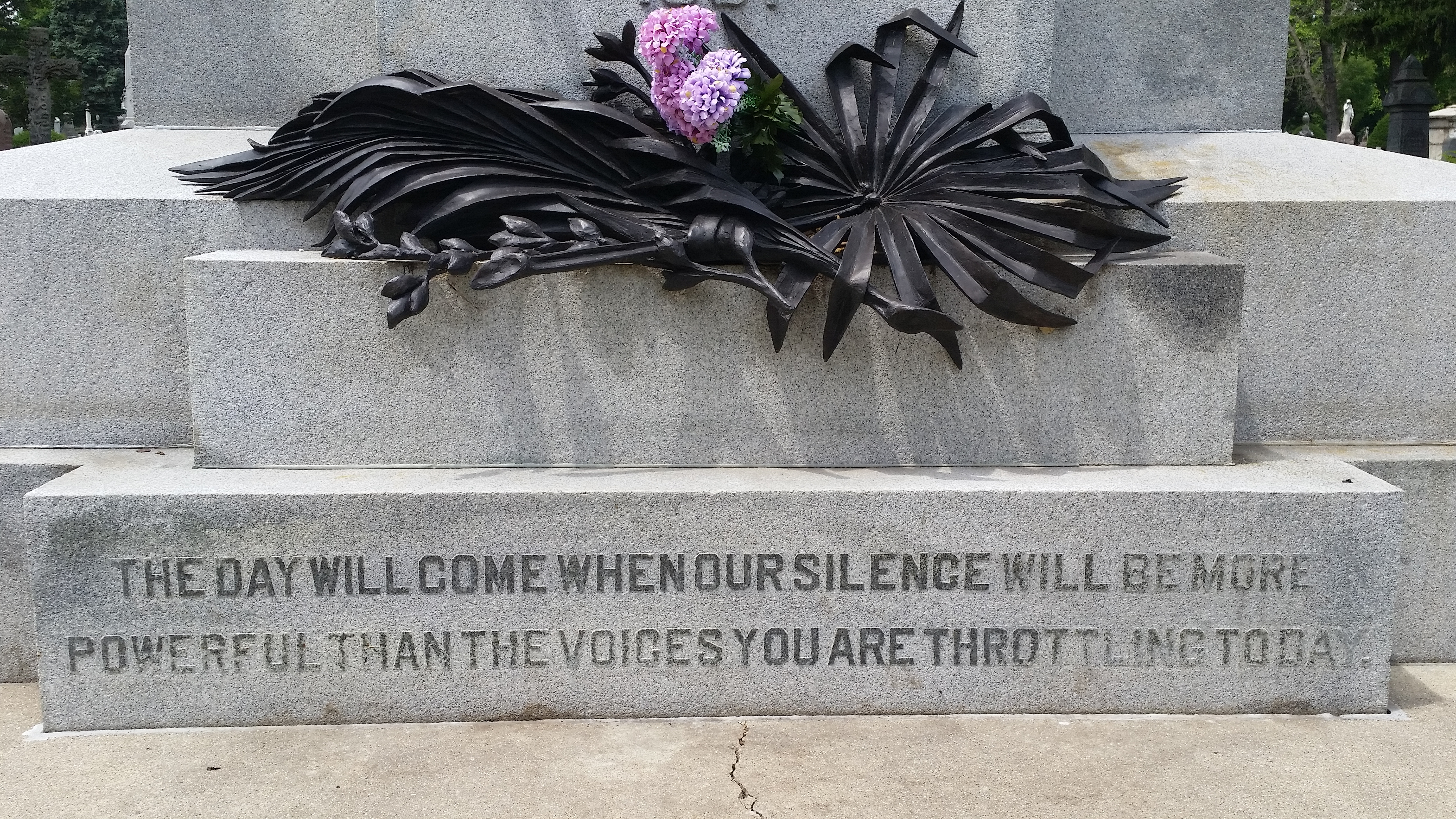 Inscription at the base of the Haymarket Martyrs' Memorial, Forest Home Cemetery, Forest Park, IL: "The day will come when our silence will be more powerful than the voices you are throttling today."